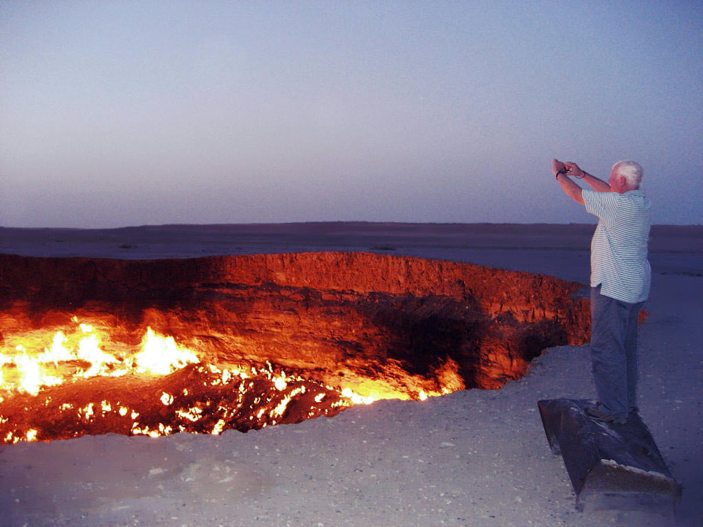 Darvaza gas crater, Karakum Desert, Turkmenistan